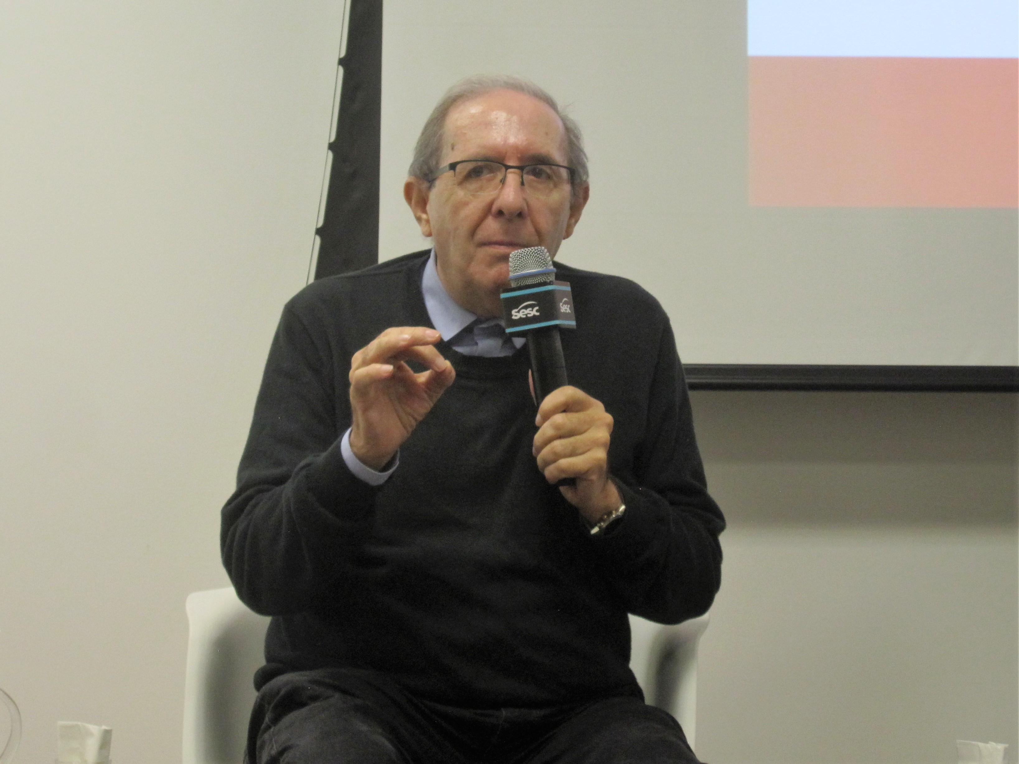 Benjamin Abdala Junior taking part of a seminary in São Paulo, Brazil.